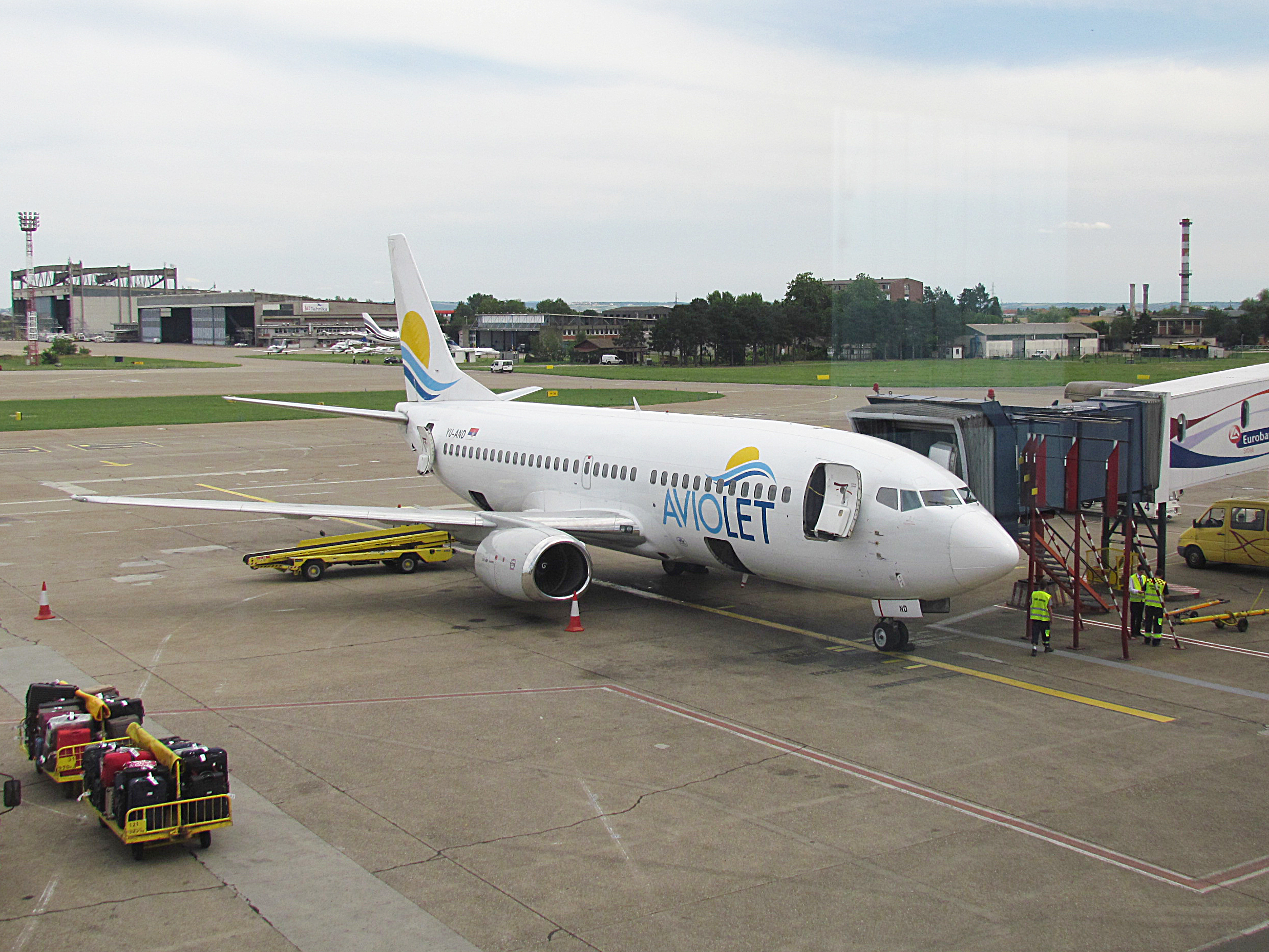 An Aviolet Boeing 737-300 at Belgrade Airport in 2014.